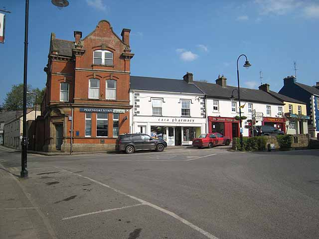 Market Square, Drumshanbo, near to Droim Seanbho, Aghnagollop and Murhaun, Leitrim, Ireland. At the heart of this attractive Leitrim town.